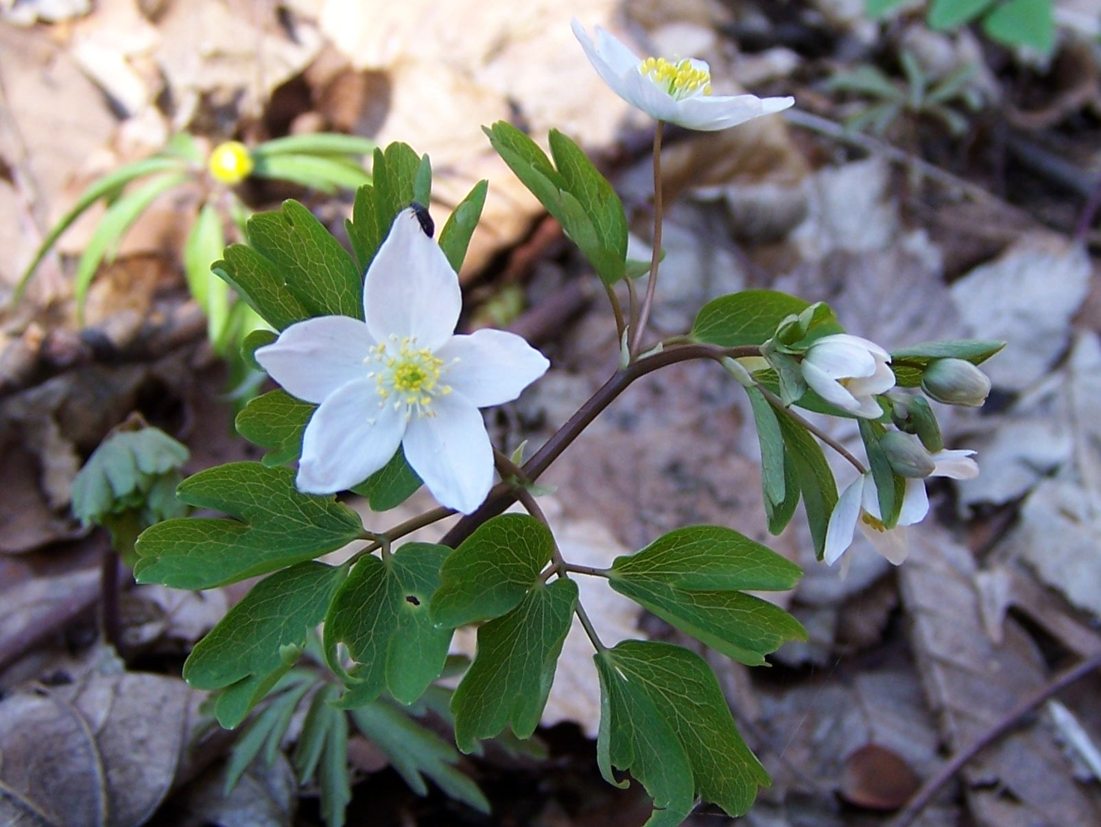 Isopyrum thalictroides